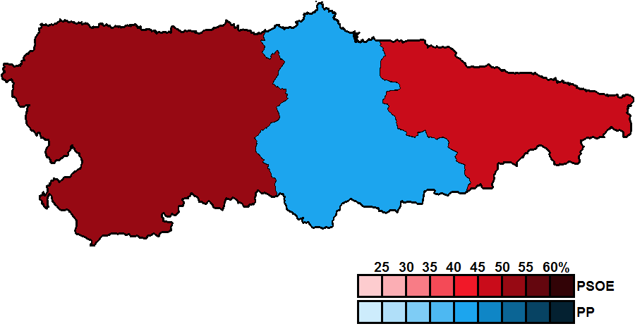 District results for the 2007 Asturian regional election.